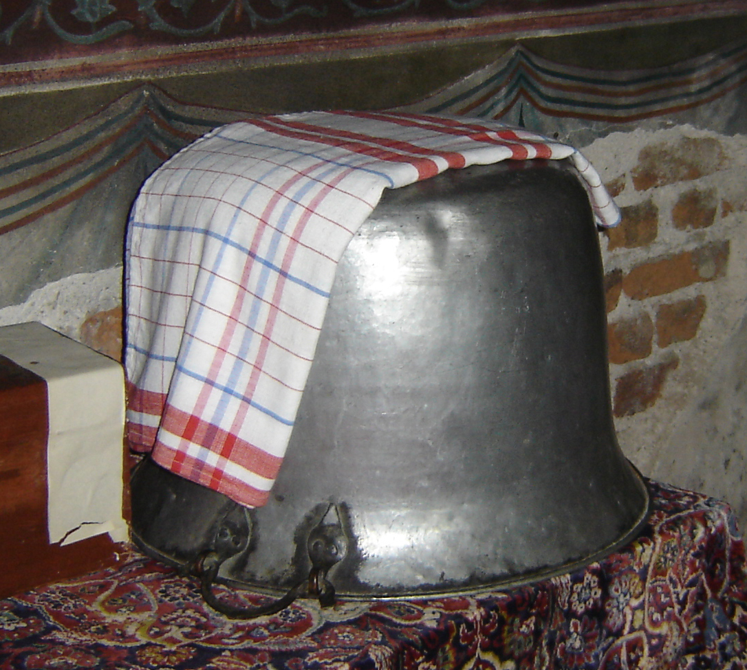 Tinned copper baptismal font from Bulgarian orthodox church